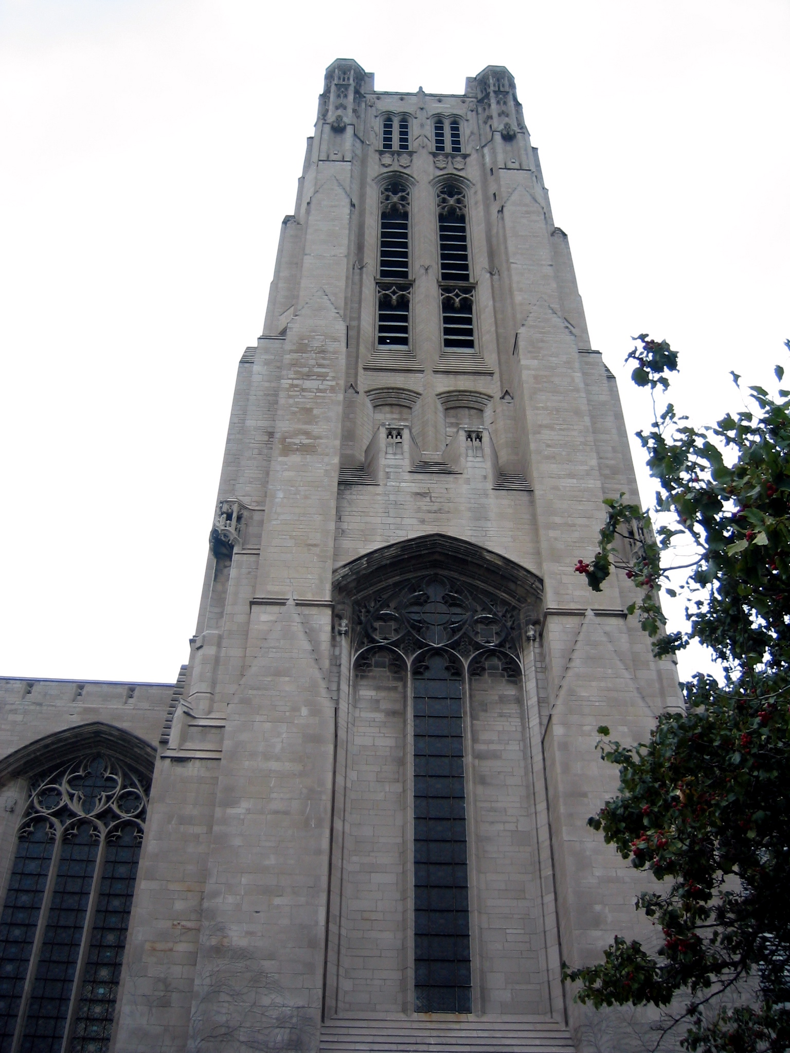 Description: The carillon tower of the Rockefeller Chapel at the University of Chicago. Source: self-made Author: Greg Dunham Date: September 24, 2005